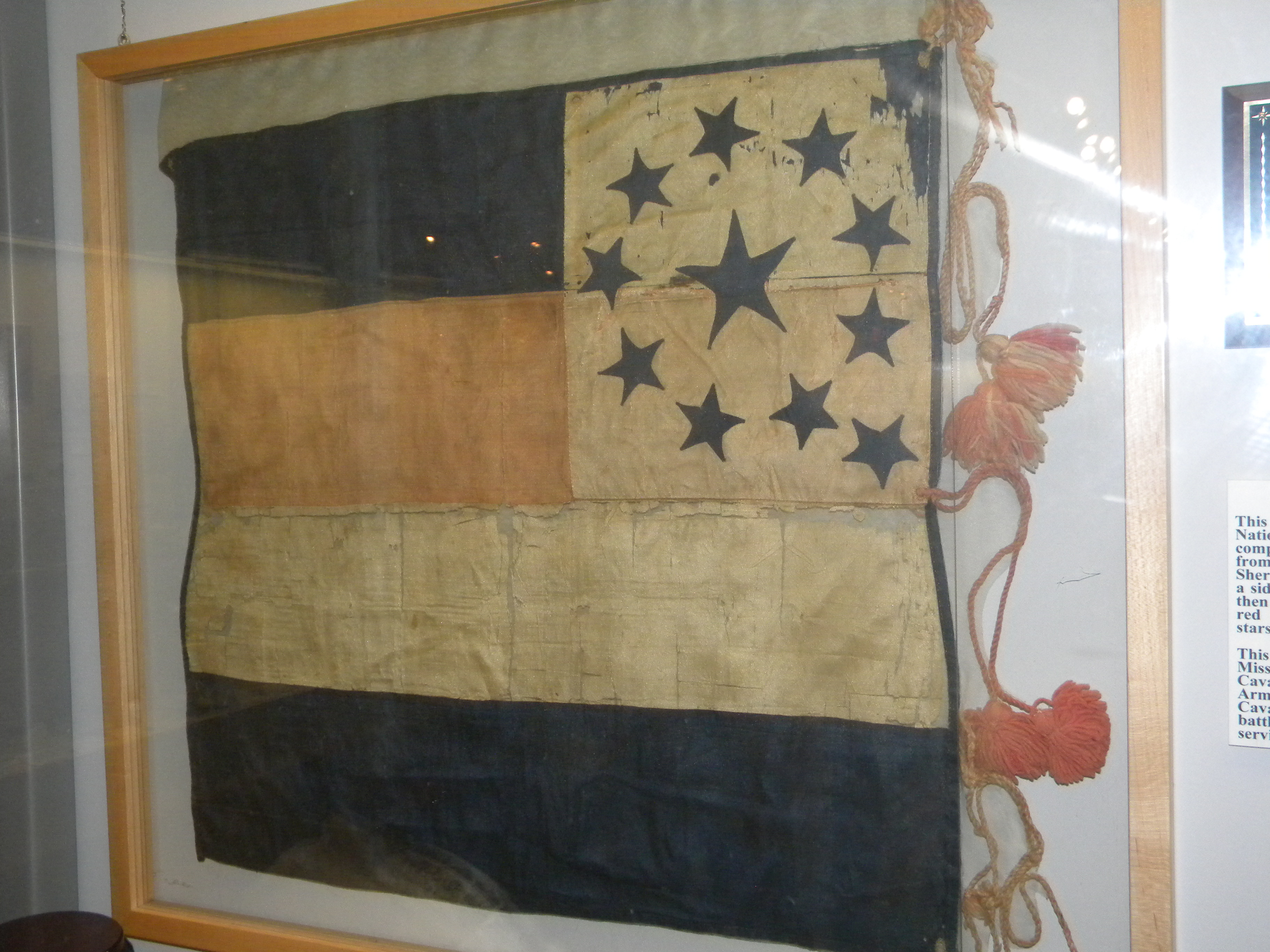 Civil War Flag photo taken by Dean Reeves, August 2015